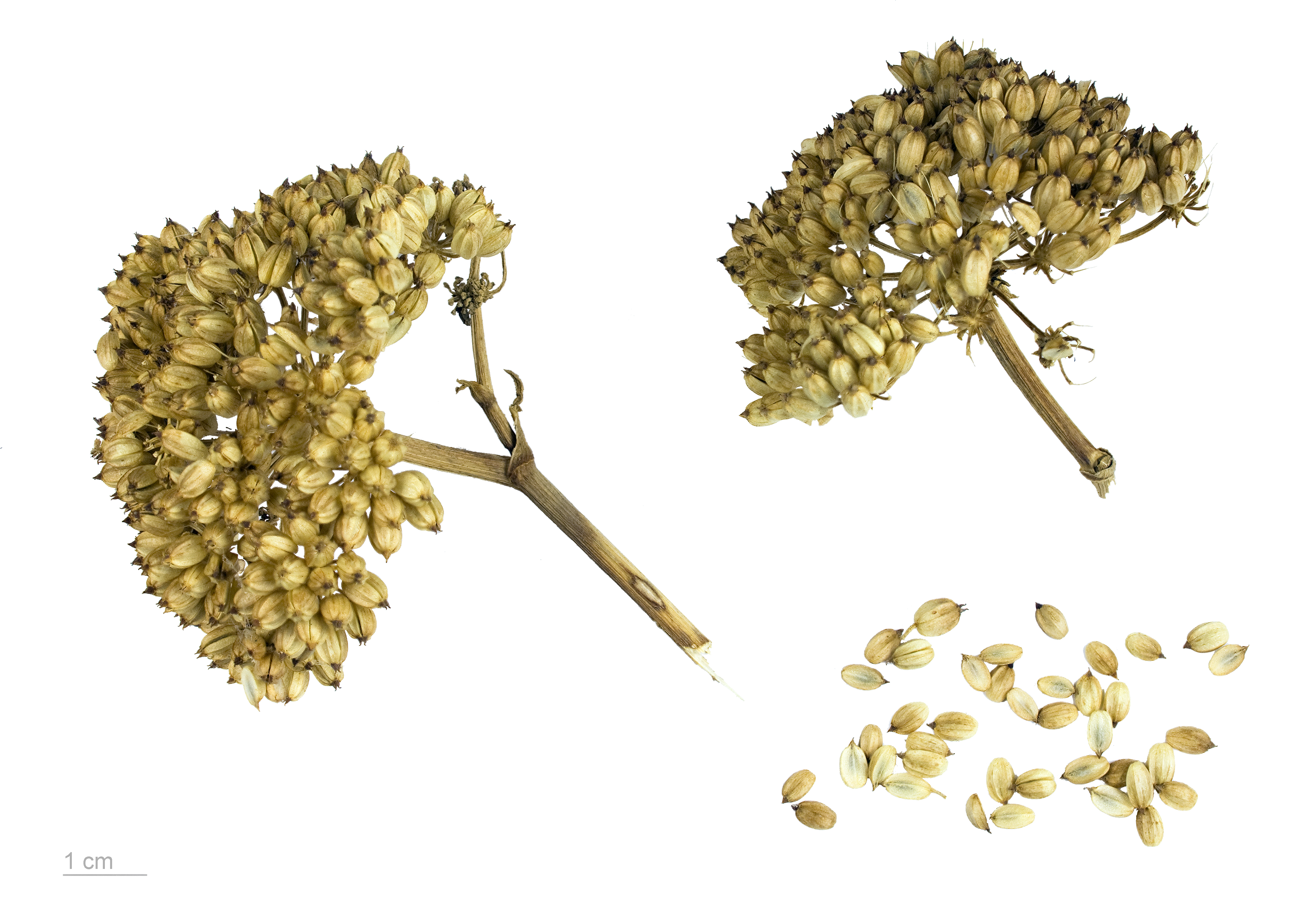 Samphire , fruits and seeds